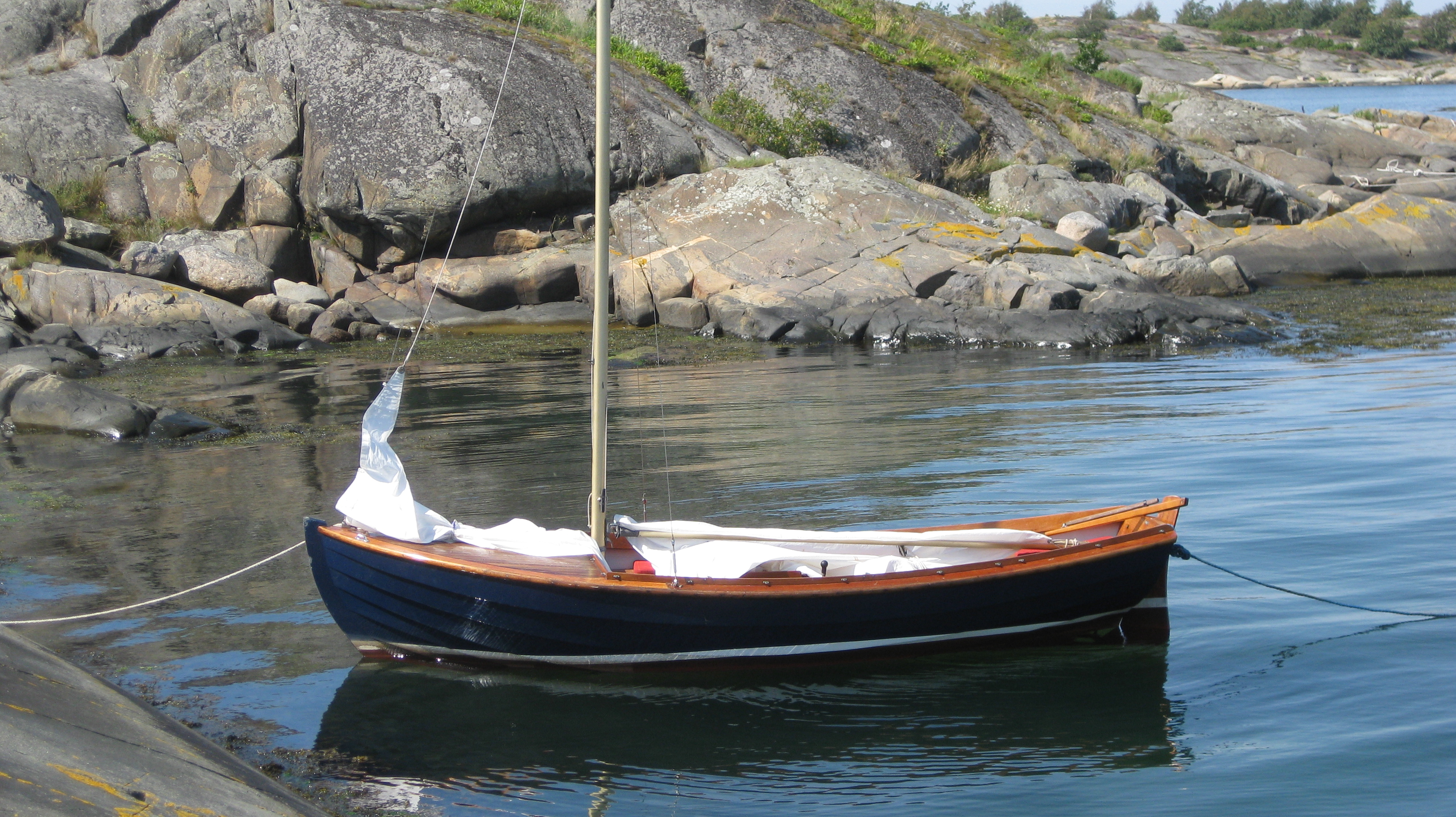 Rånäsjulle 15 fot